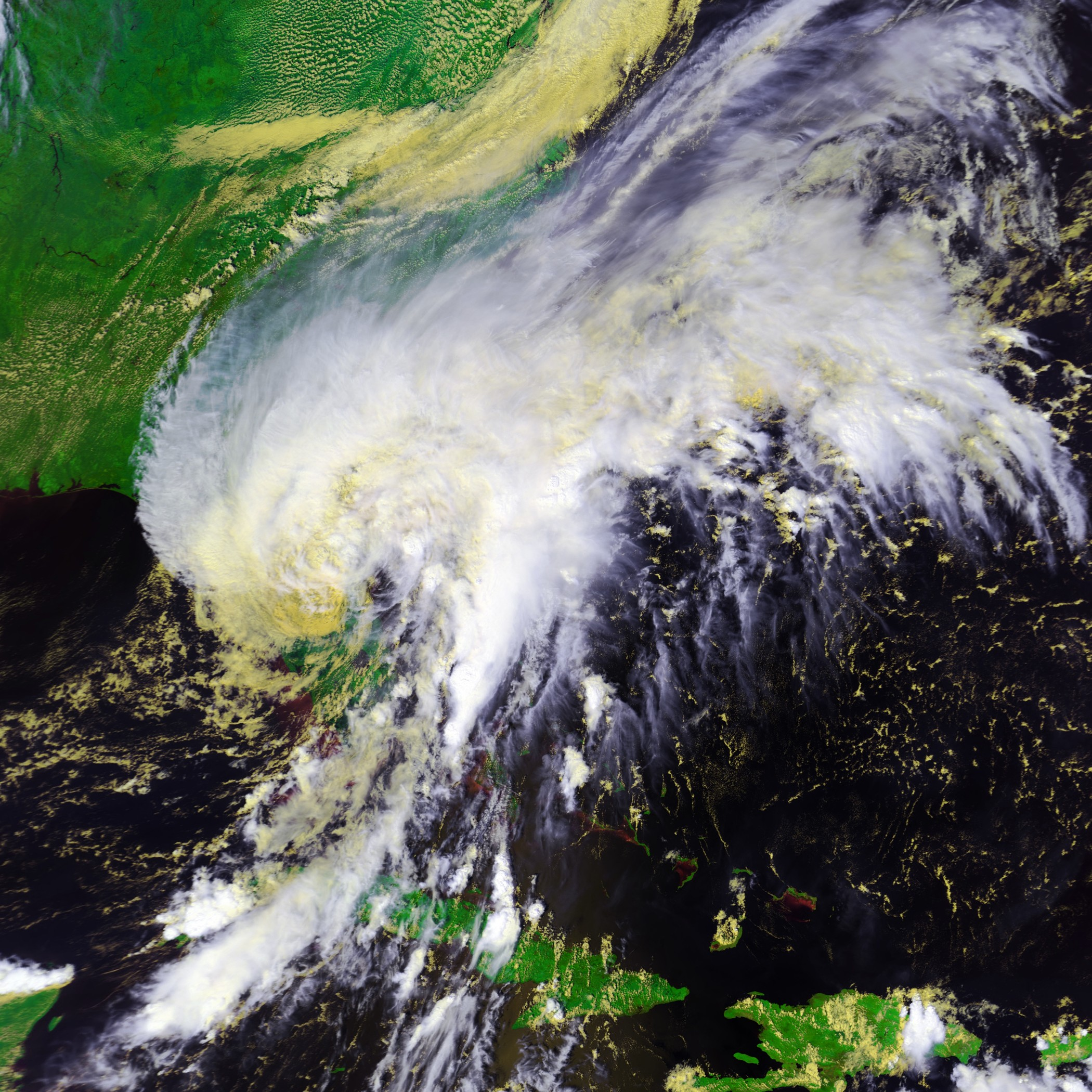 Tropical Storm Gabrielle over Florida on September 14 at 1832 UTC. This image was produced from data from NOAA-16, provided by NOAA. The storm's maximum sustained winds were 50 mph.